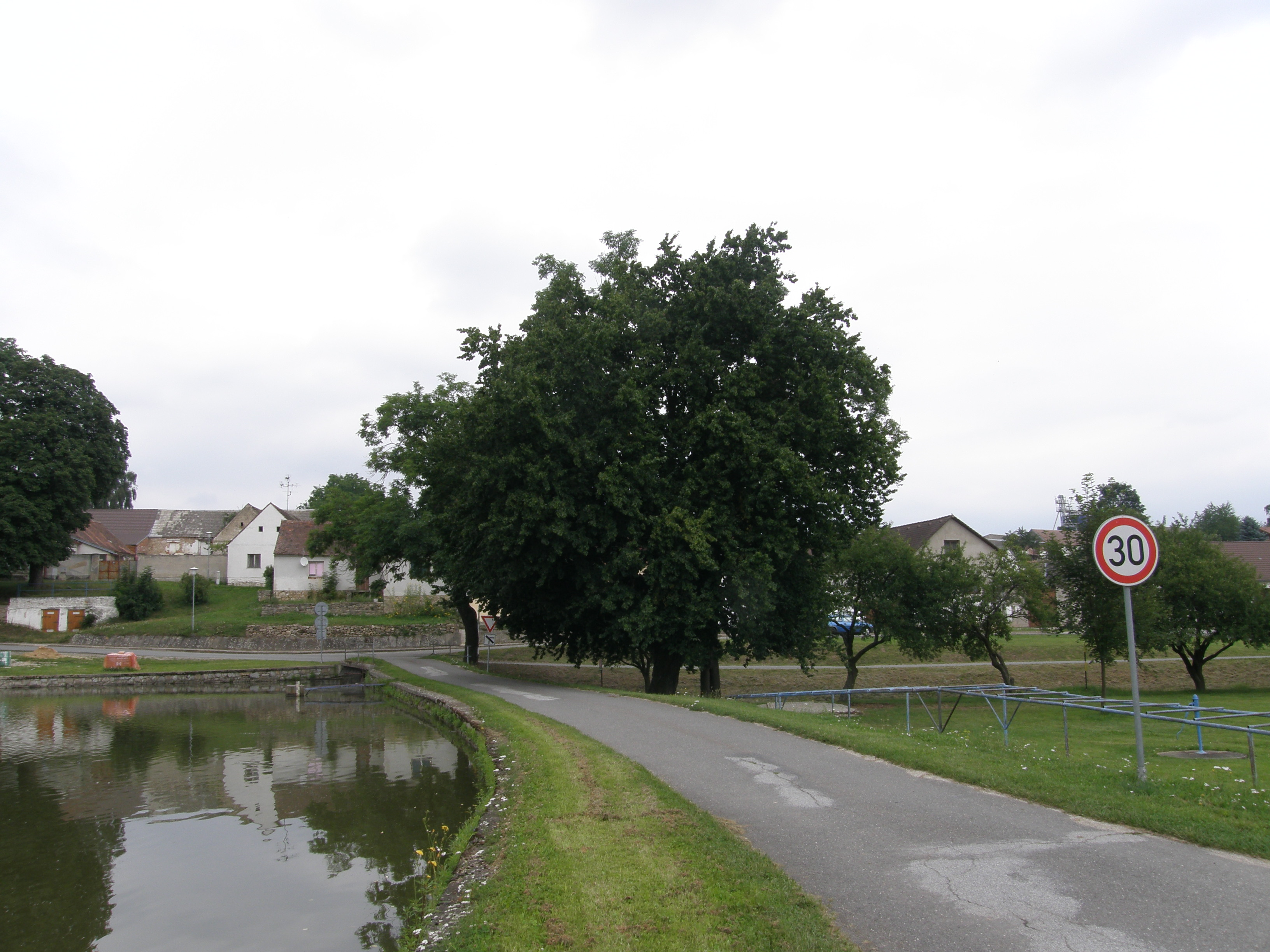 Famous tree Pečský habr in Jindřichův Hradec District, Czech Republic.